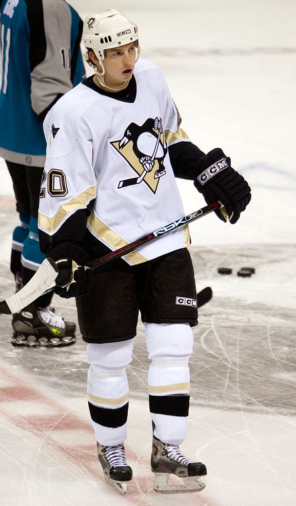 Colby Armstrong, Pittsburgh Penguins vs. San Jose Sharks